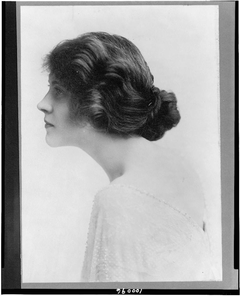 Ruth Chatterton, head-and-shoulders portrait, facing right. U.S. Copyright Office file J190141.